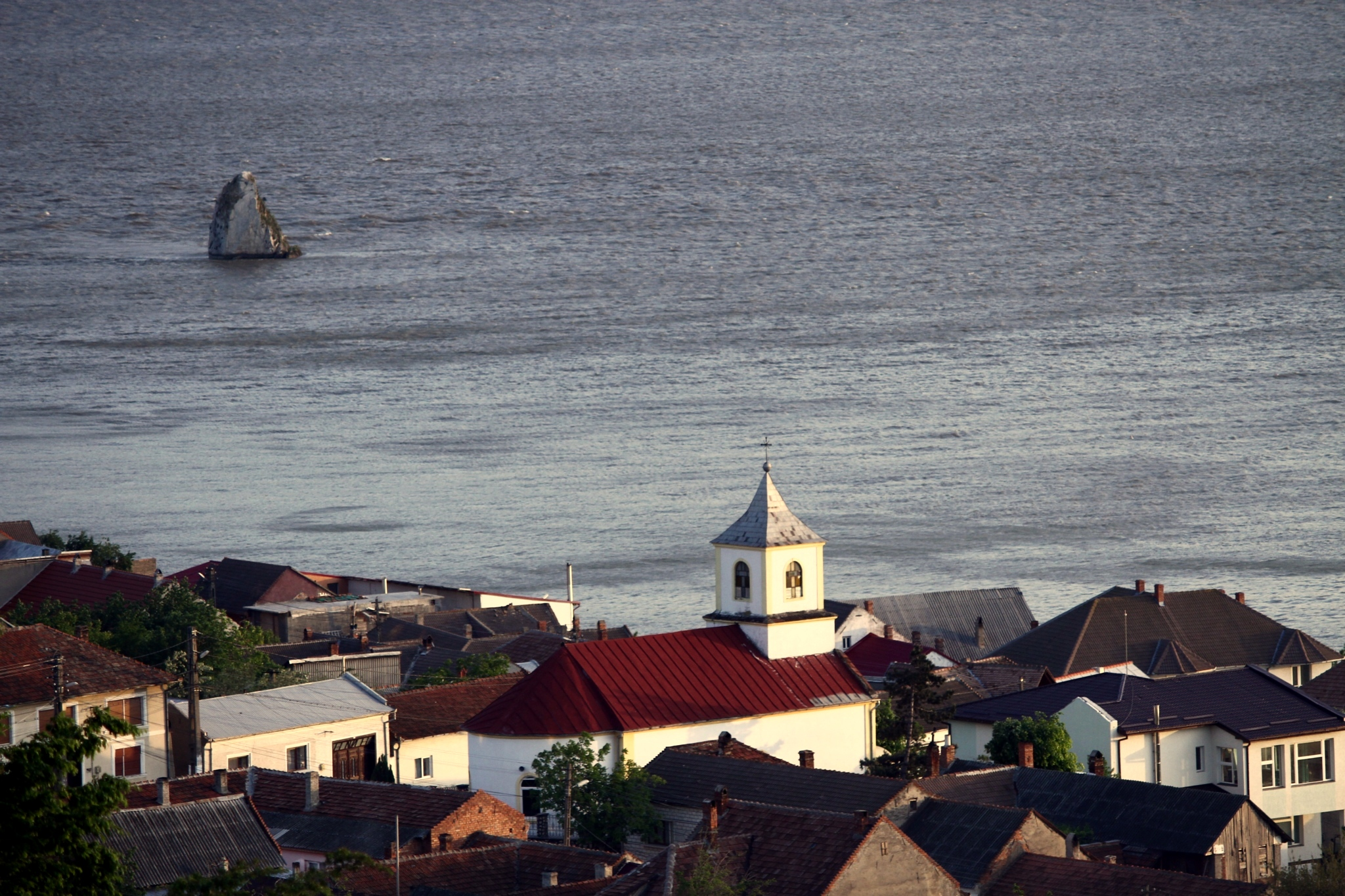 the Danube with the Babacai rock at Coronini, Romania